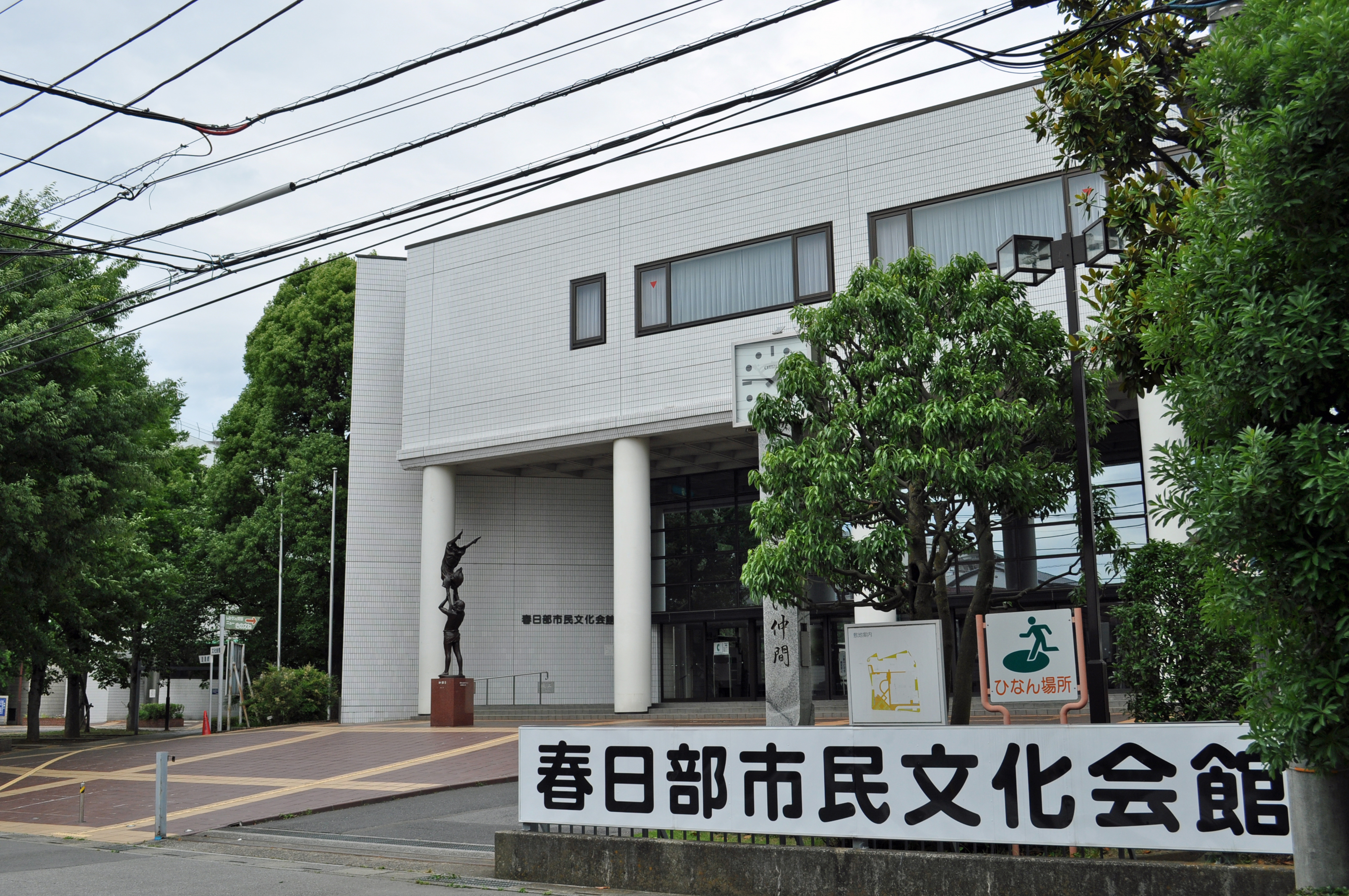 Kasukabe Civic Cultural Center